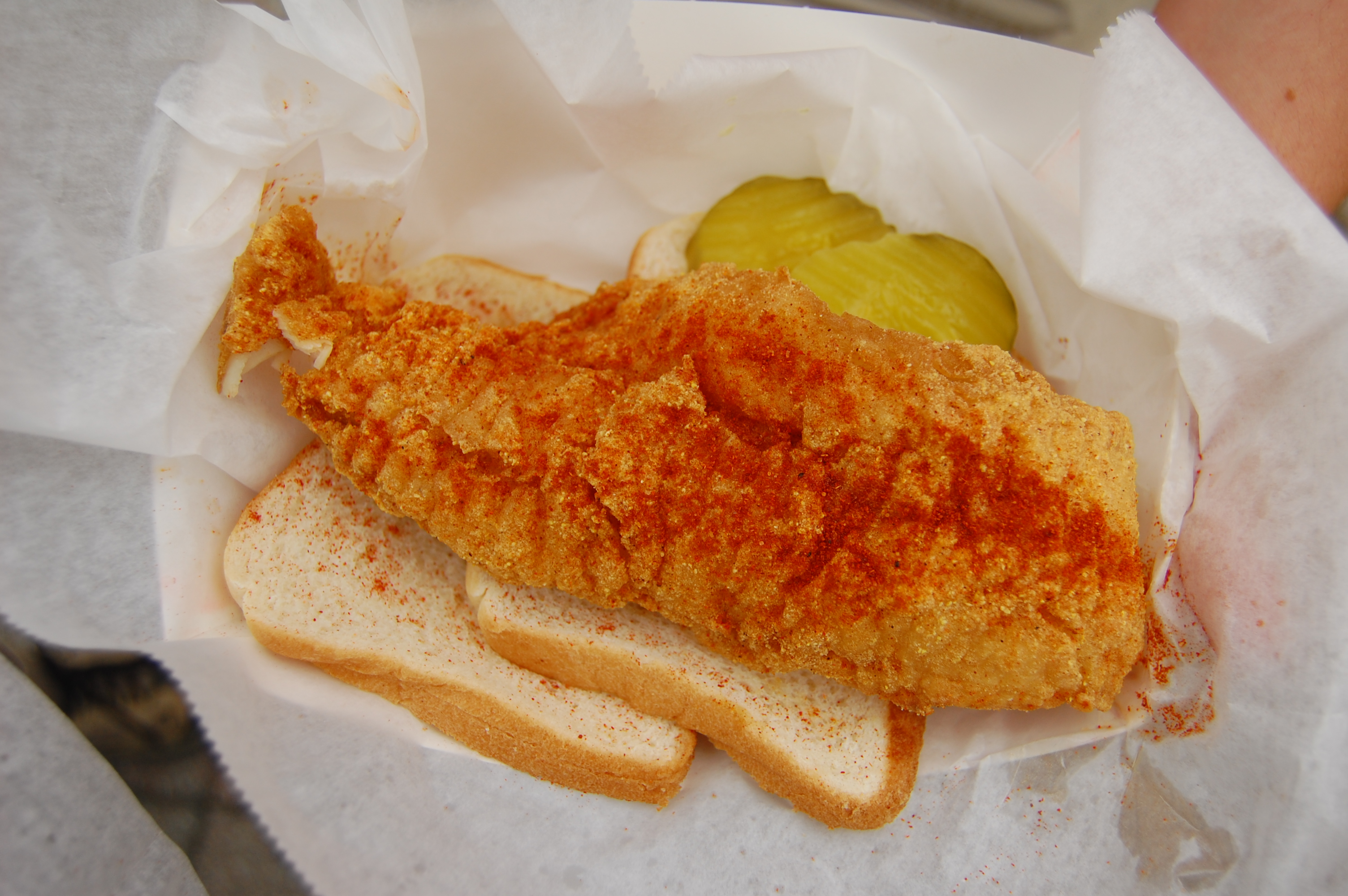 A hot fish sandwich from Bolton's Spicy Chicken & Fish (Nashville, TN) at the Franklin Food & Spirits Festival in Franklin, Tennessee. Taken May 31, 2008. Photo by Amy C. Evans, SFA oral historian